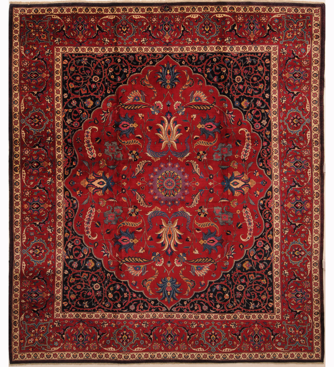 Antique Persian Mashad rug measuring 12'9 X 14'7" and signed by the master weaver "saber" in perfect condition, truly a masterpiece.